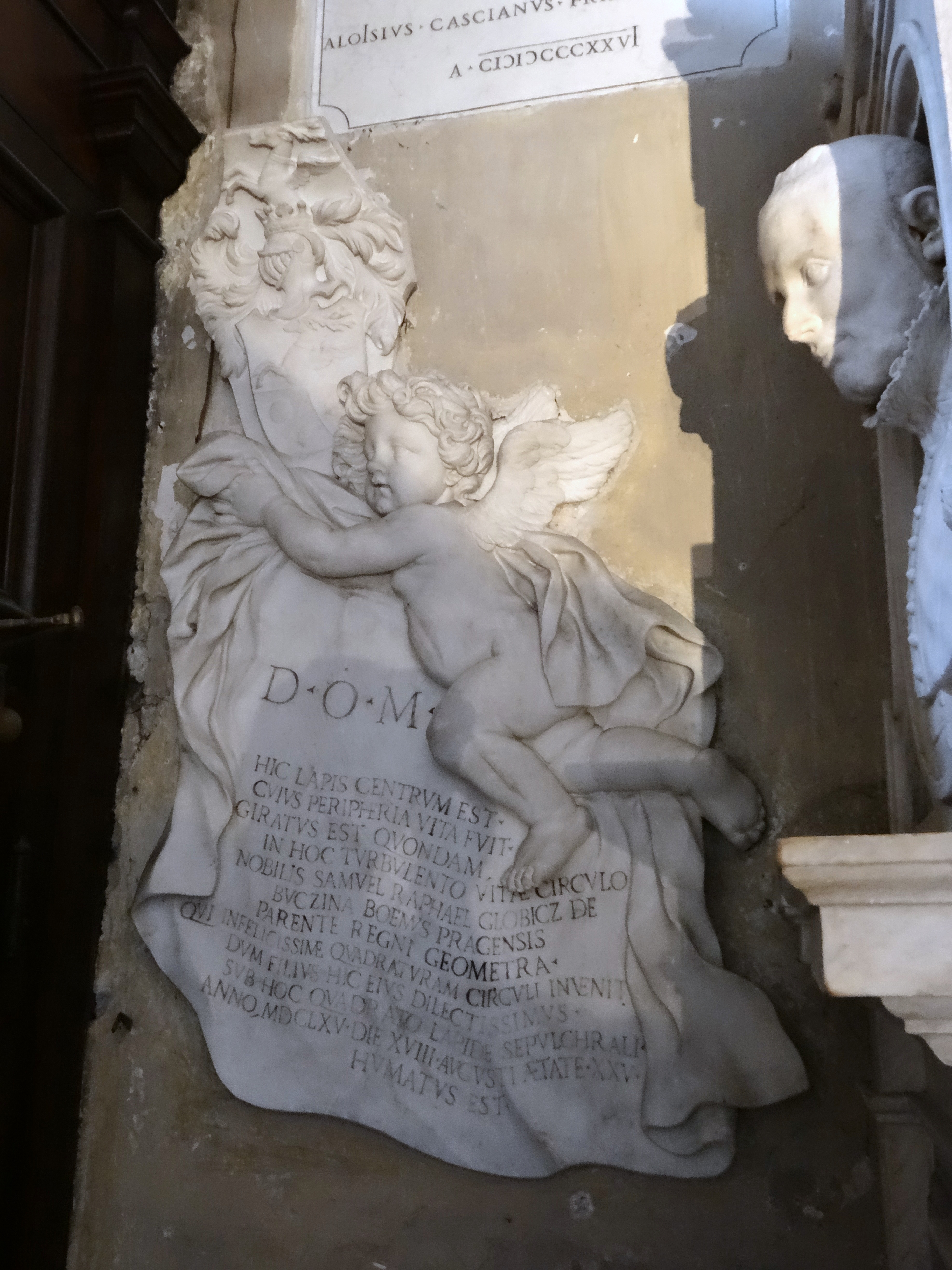 The funeral monument of Samuel Rafael Globic in Santa Maria del Popolo, Rome (1665).